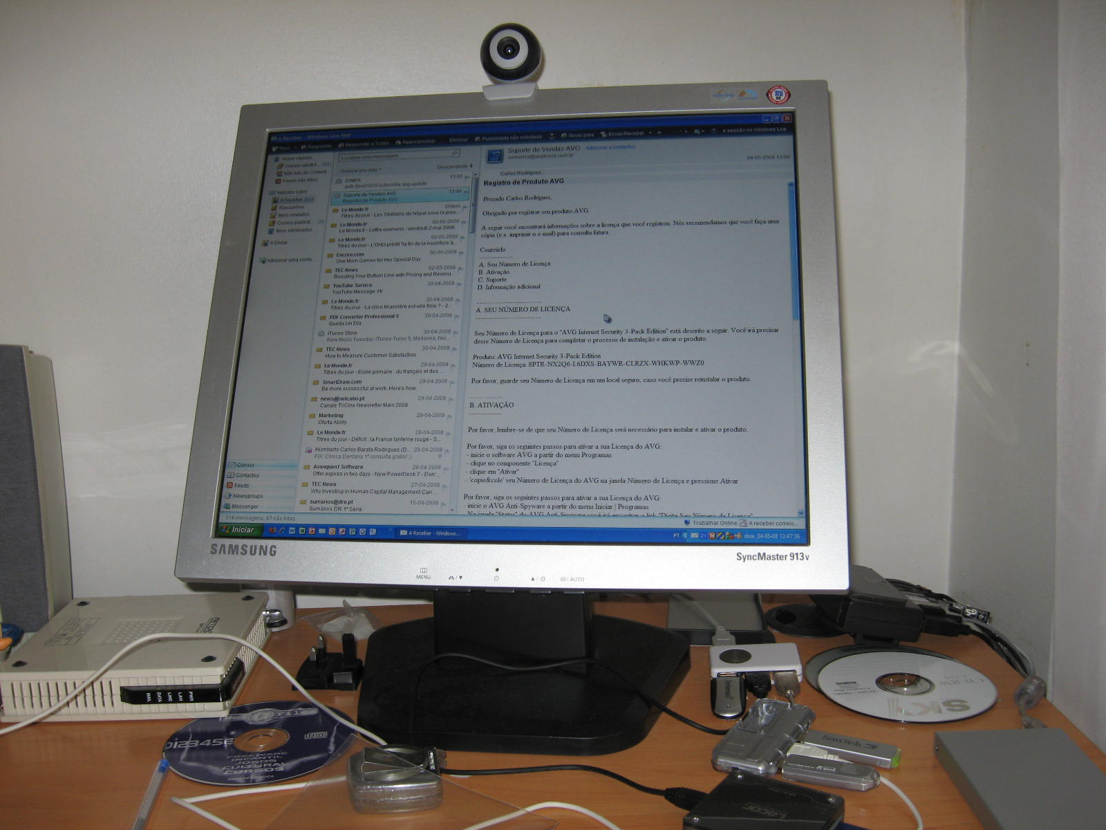 Is an image about a Monitor LCD.